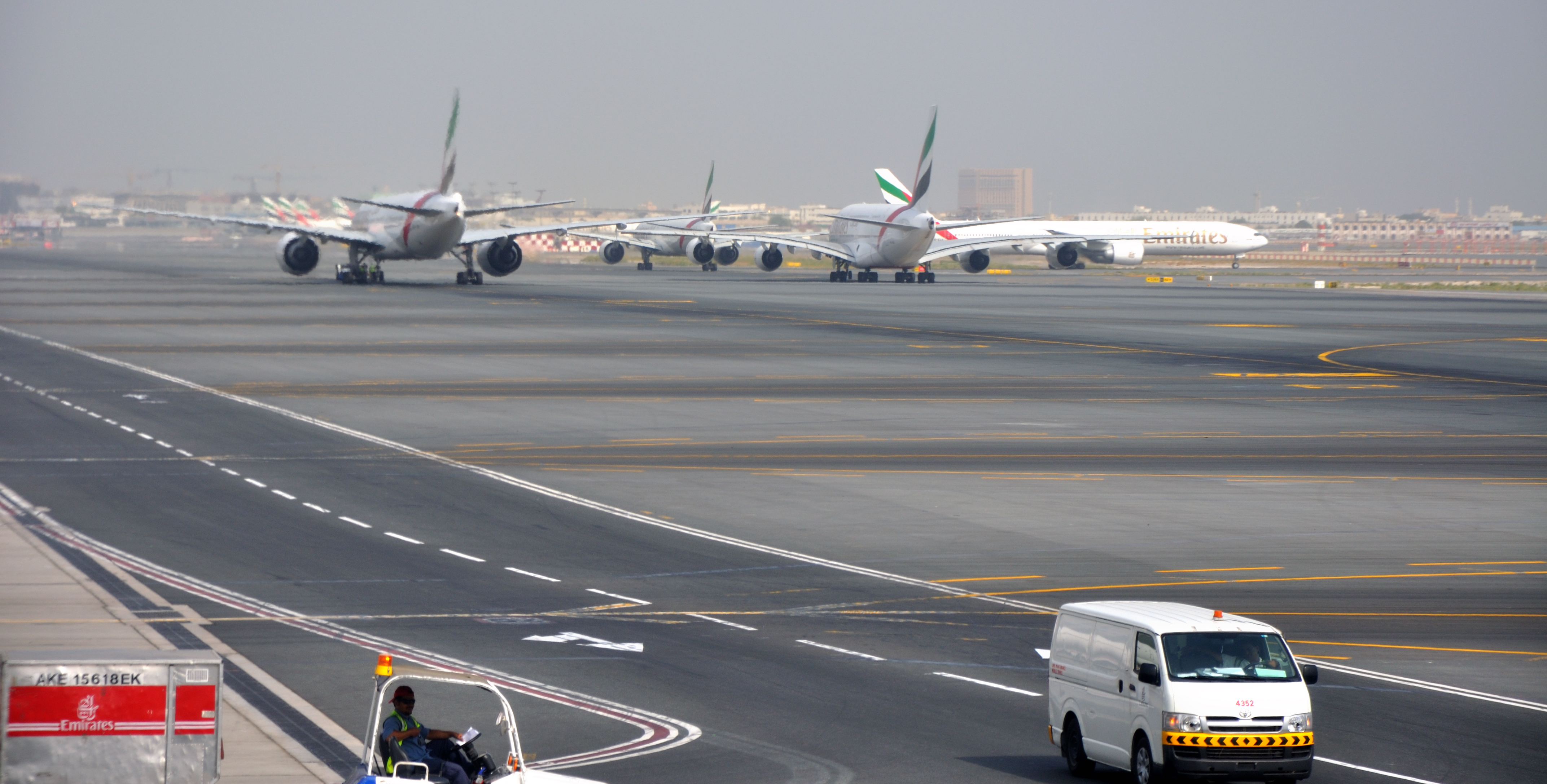 United Arab Emirates, Another busy morning at Dubai International Airport with 3 B777, an A380 and a Toyota ;-)